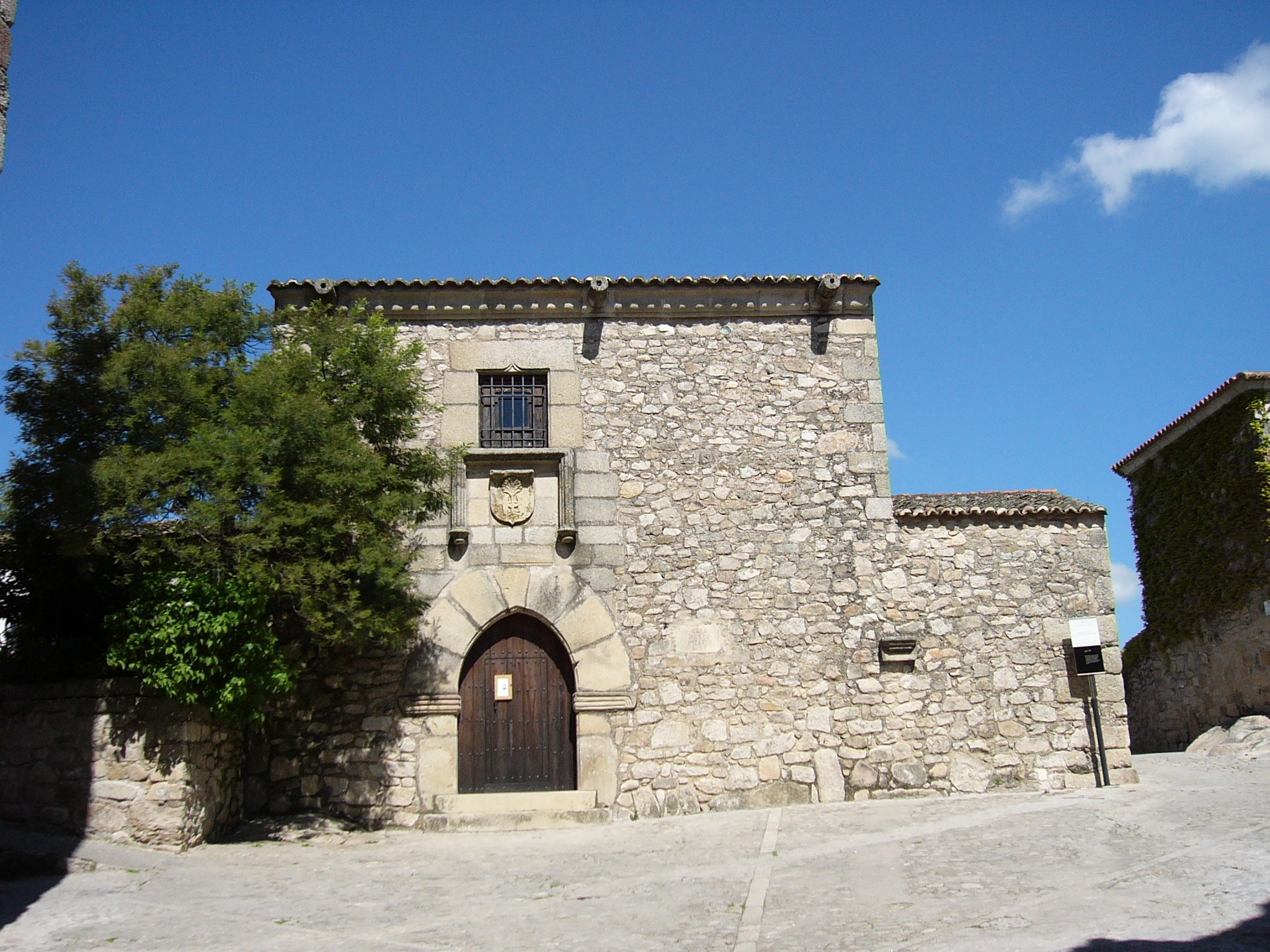 Description: House and Museum of Francisco Pizarro Date: XVI century City : Trujillo Country : Spain Photographer: © Manuel González Olaechea y Franco Shot date : April, 13th., 2004